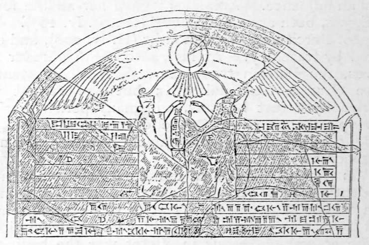 Upper half of the broken Shaluf Stela of Darius I. Reign of Darius I, 27th Dynasty, Late Period.